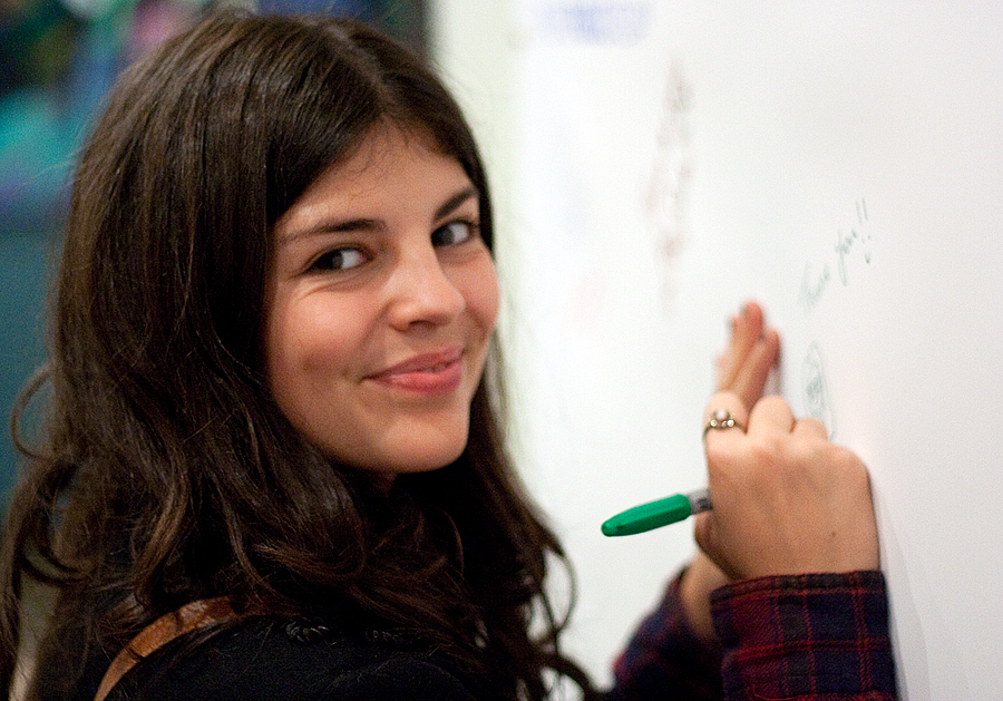 Nikki Yanofsky signs the KPLU Autograph Wall and joins the likes of Dr. John, Kyle Eastwood and Shemekia Copeland. Photo by Justin Steyer